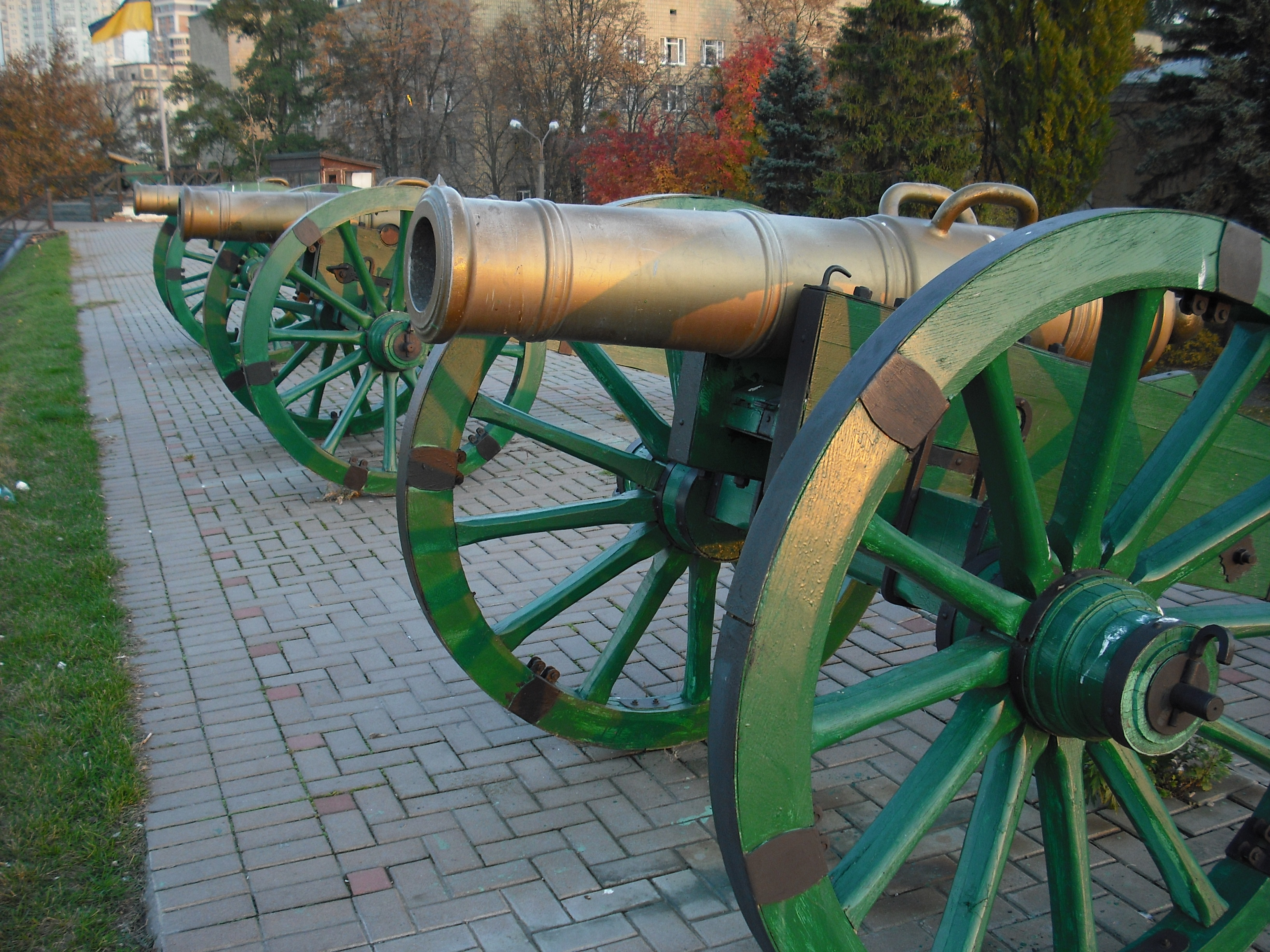 Kiev - Fortress - Cannons